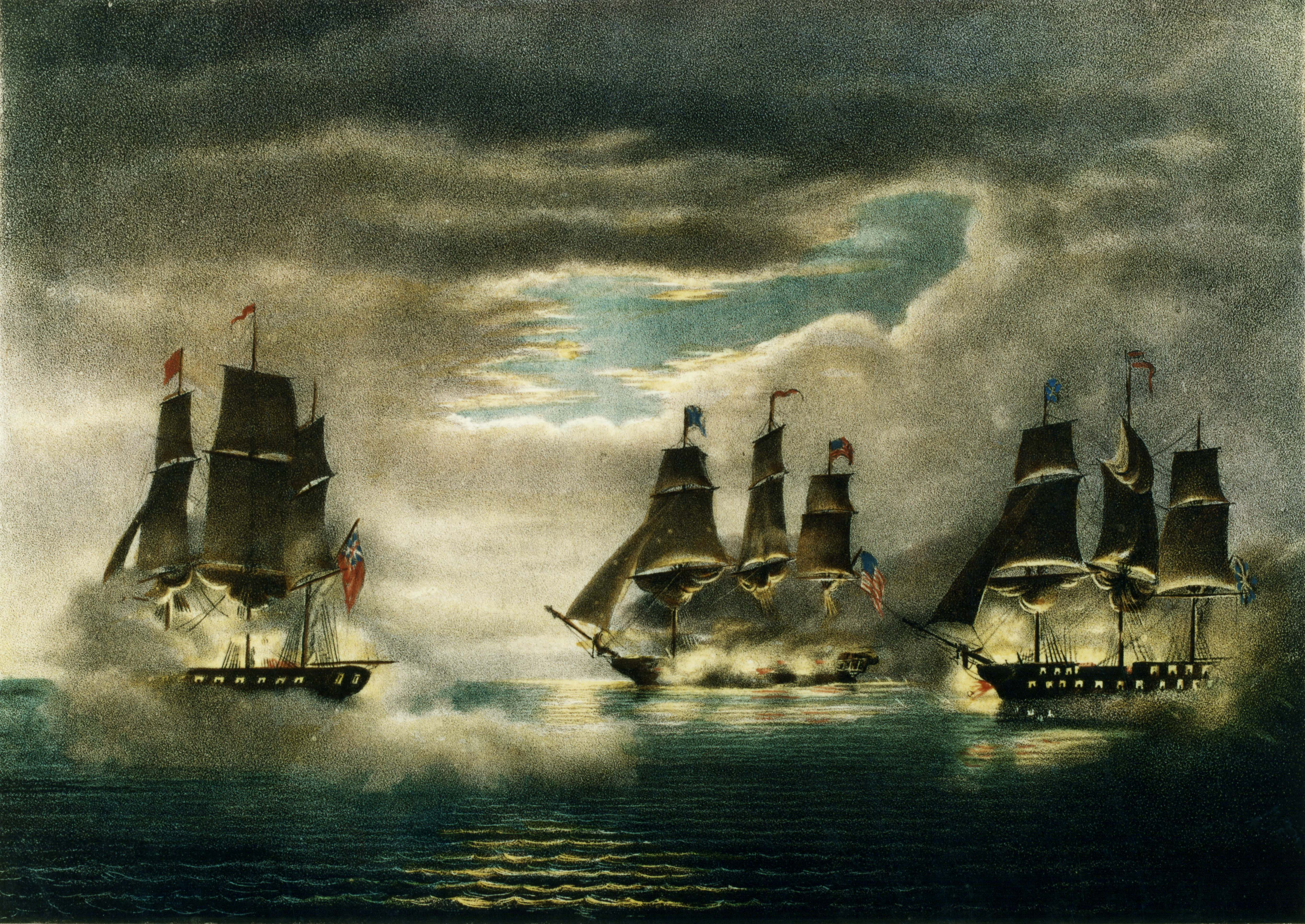 Capture of H.M. Ships Cyane & Levant, by the U.S. Frigate Constitution